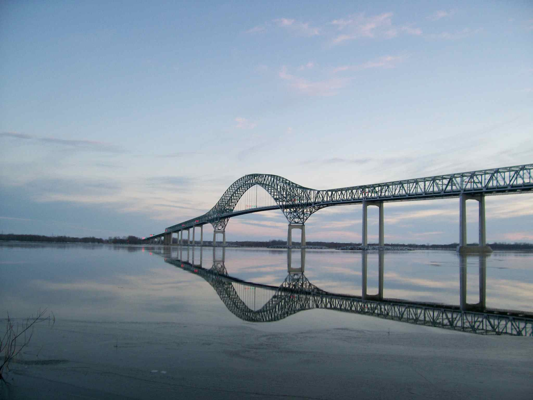 Laviolette Bridge connecting the city of Trois-Rivières, Quebec, Canada to Bécancour